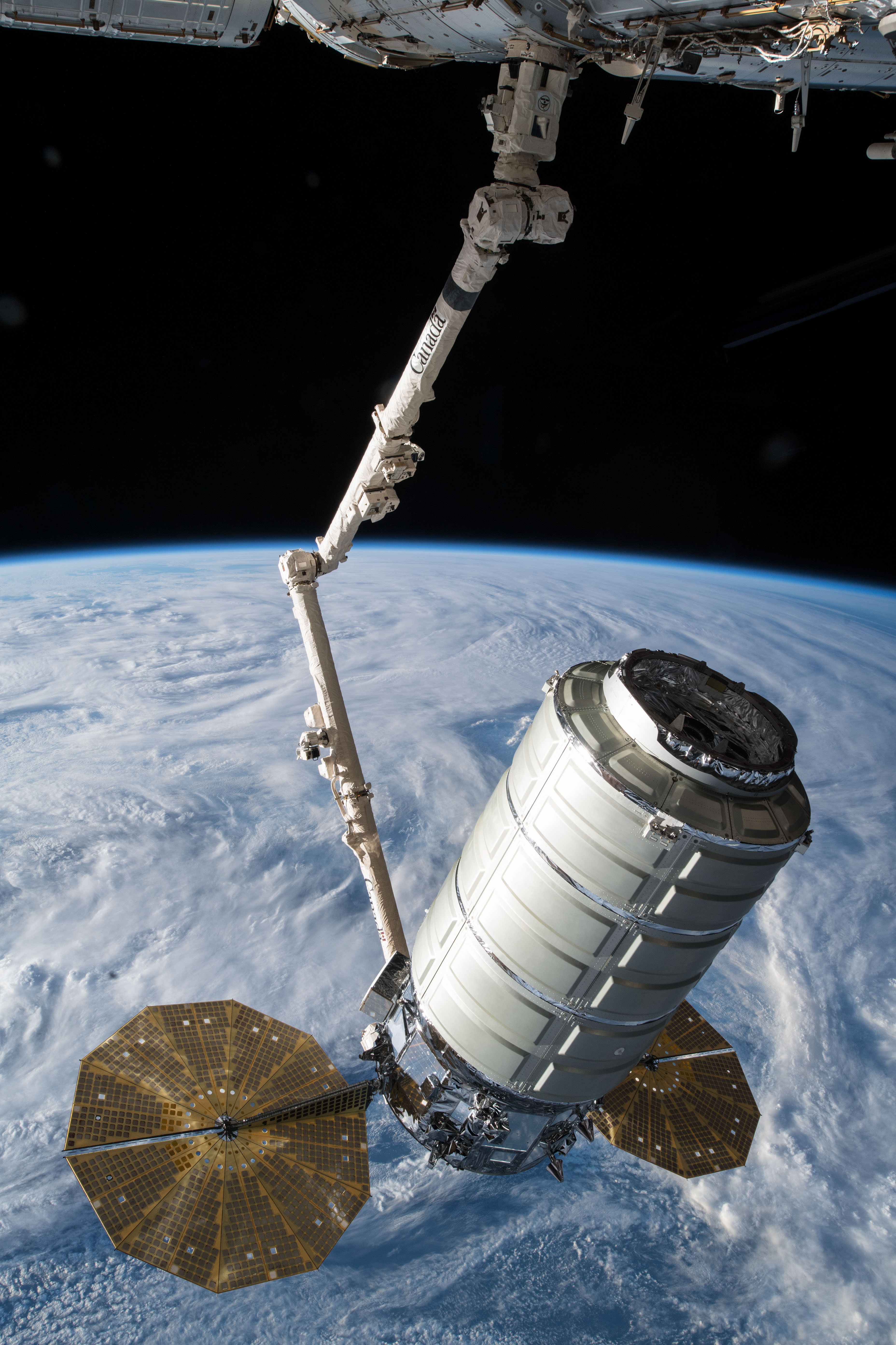 The Orbital ATK space freighter is slowly maneuvered by the Canadarm2 robotic arm toward the Unity module for installation on the International Space Station to resupply the Expedition 55 crew.